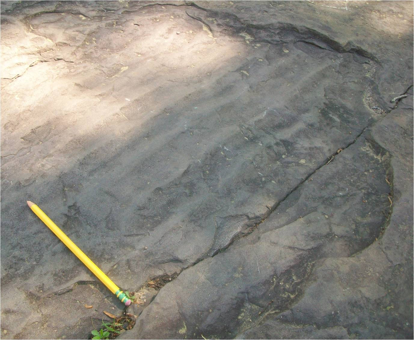 Ripple marks preserved in sandstone from a pool formed during the Late Triassic or Early Jurassic at the Dinosaur Footprints wilderness reservation in Holyoke, Massachusetts. Pencil for scale.